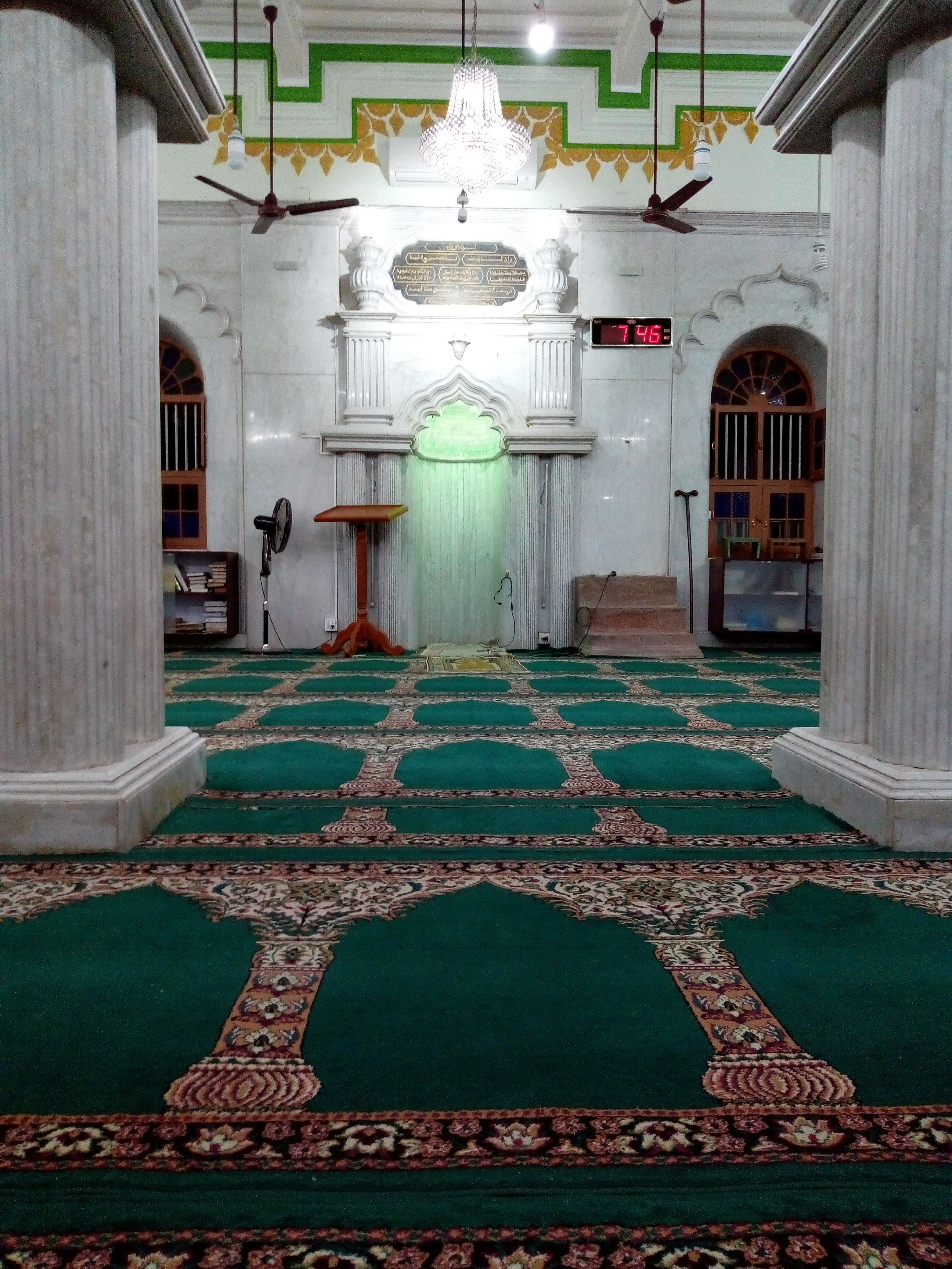 Inside Mosque